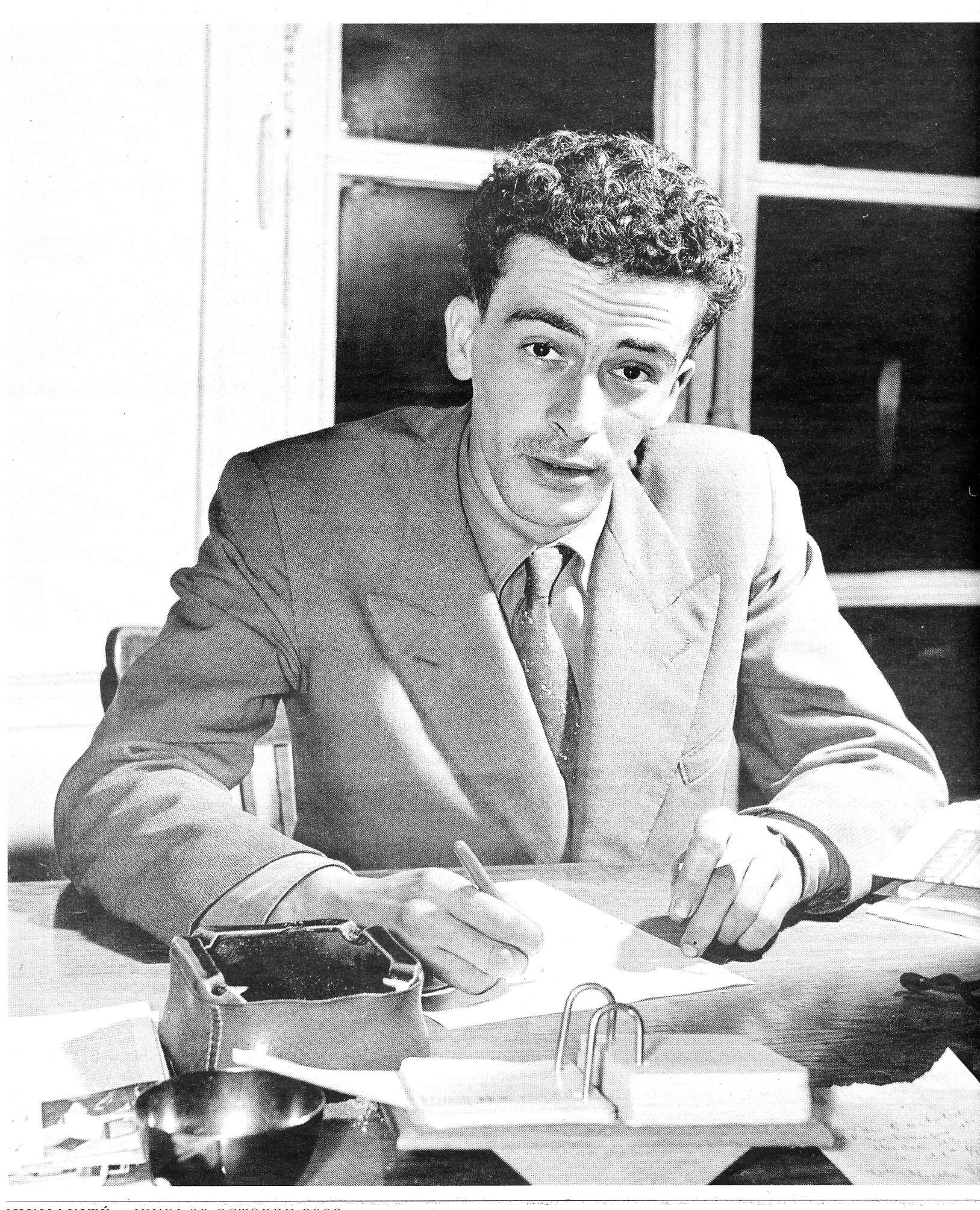 Kateb Yacine 1956 - autographing Nedjma